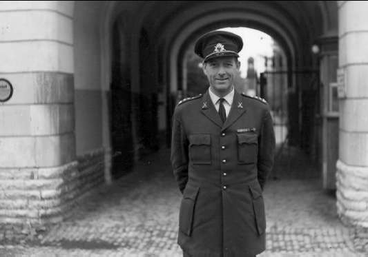 The Executive Commander, Lieutenant Colonel Bengt Ljungquist, leaves the Life Regiment Hussars (K 3) and retires.